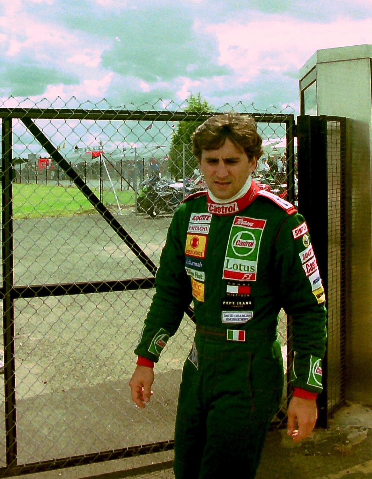 Alessandro Zanardi in the paddock before the 1993 British Grand Prix